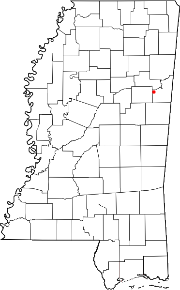 Mayhew, Mississippi location map; created with the GIMP. Made by User:Acntx. Adapted from Wikipedia's Mississippi County Maps.